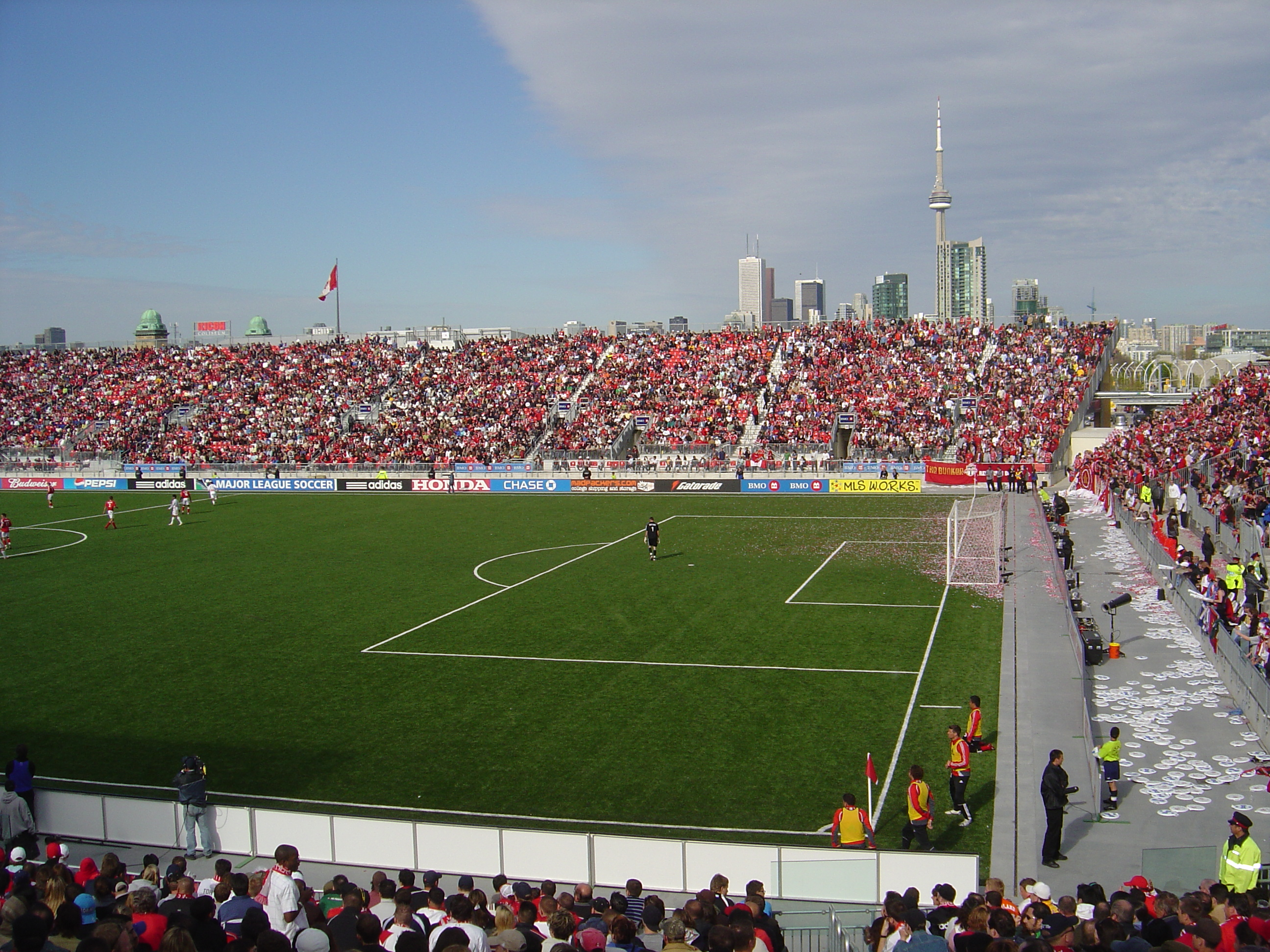 The East Stand at BMO Field. The South End Supporters section is partially visible at the right most edge of the photo.